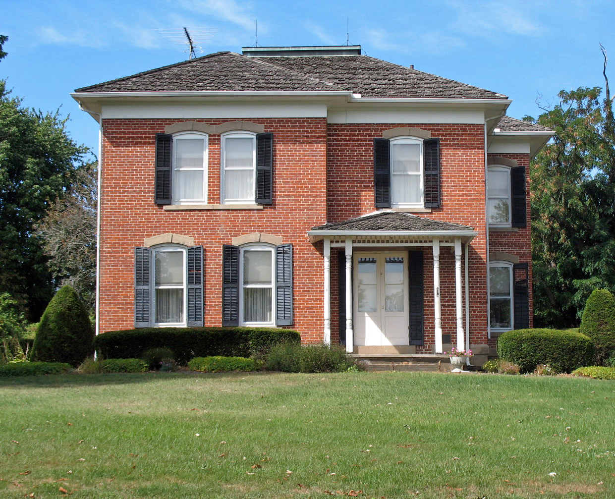 Registered Historic Places in Stark County, Ohio. Emanuel and Frederick Serquet Farm, 14091 Stoneford St. SW, Wilmot, Ohio, USA. Photographed 2008-08-26 from the north side of Stoneford St. near the intersection of Northvale Ave, SW.